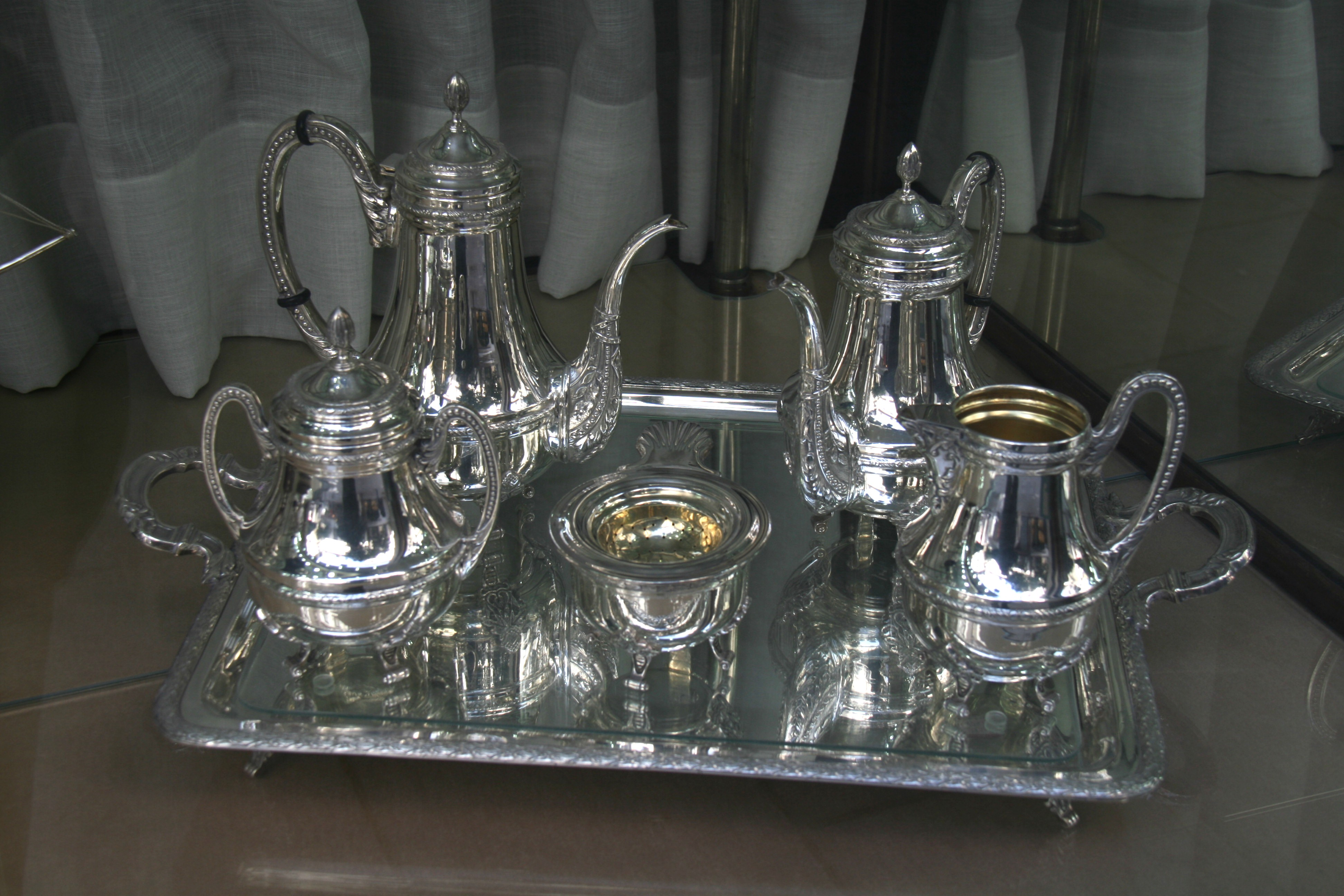 Silver Tea set of Spain